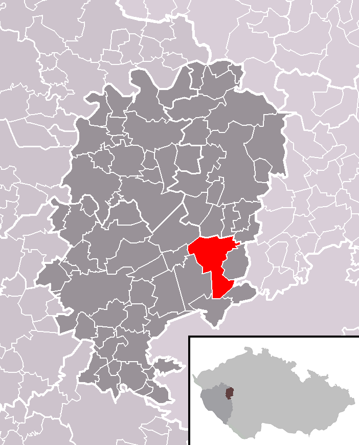 Location of Mýto town within Rokycany District and within identical administrative area of Rokycany as a Municipality with Extended Competence.